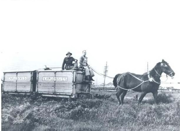 Horse-drawn explosives carrying wagons in the Dry Creek Explosive Magazine in South Australia